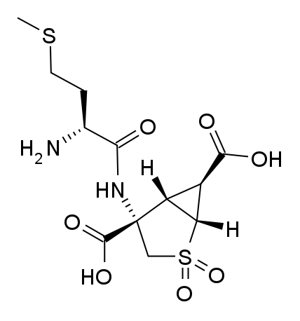 i drew this anyone can use it